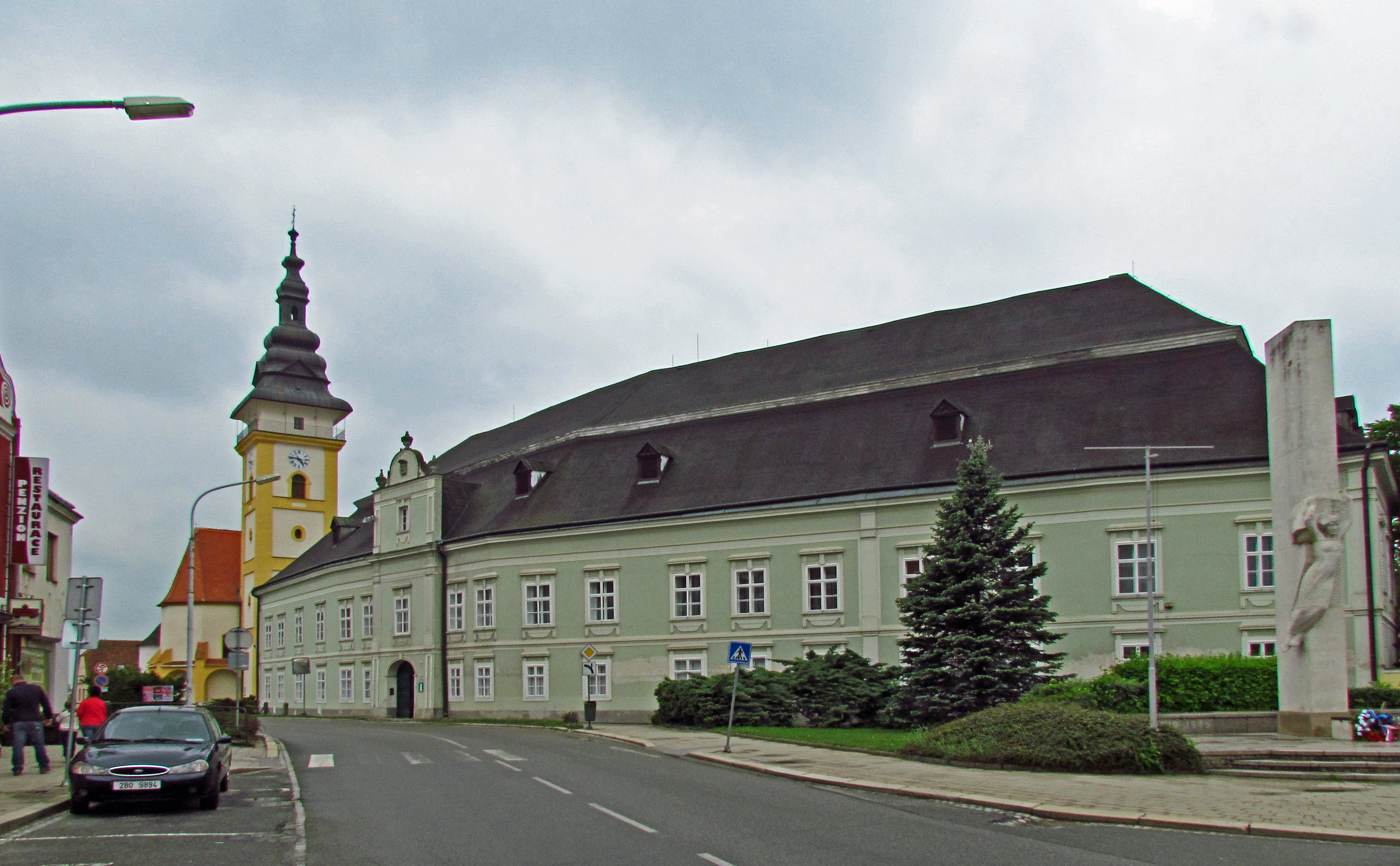 Museum Vysočiny in Moravské Budějovice, Třebíč District.